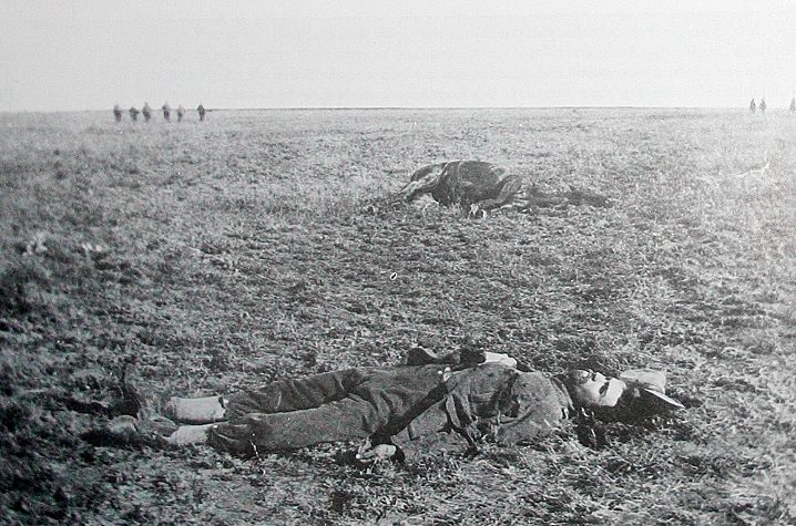 Commandant Potgieter sprawled in the grass 27 metres from the British line, after the battle of Rooiwal on 11 April 1902. He and 50 of his men died gallantly charging the British line on horseback.; Battle of Rooiwal